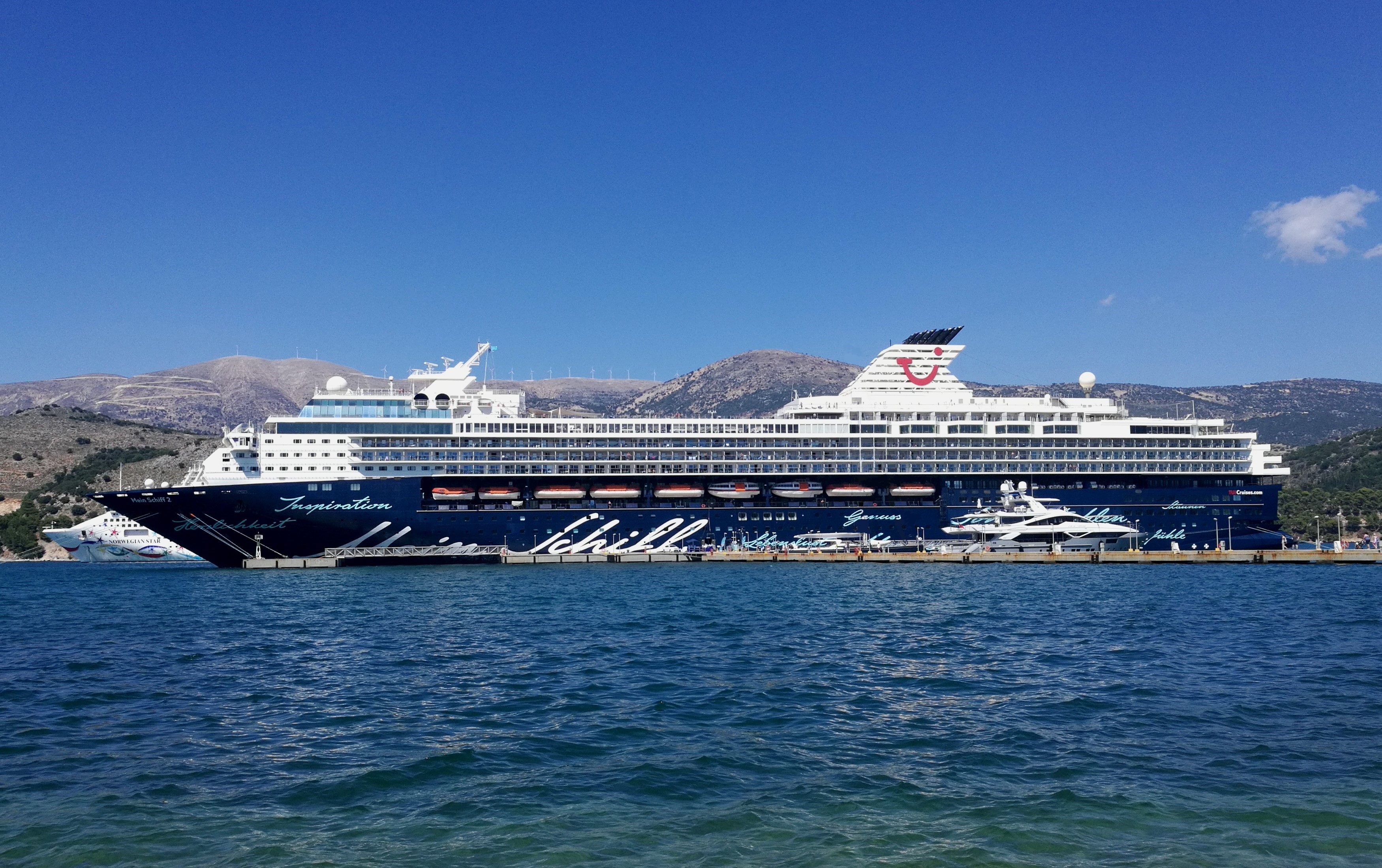 Mein Schiff 2 docked at Argostoli